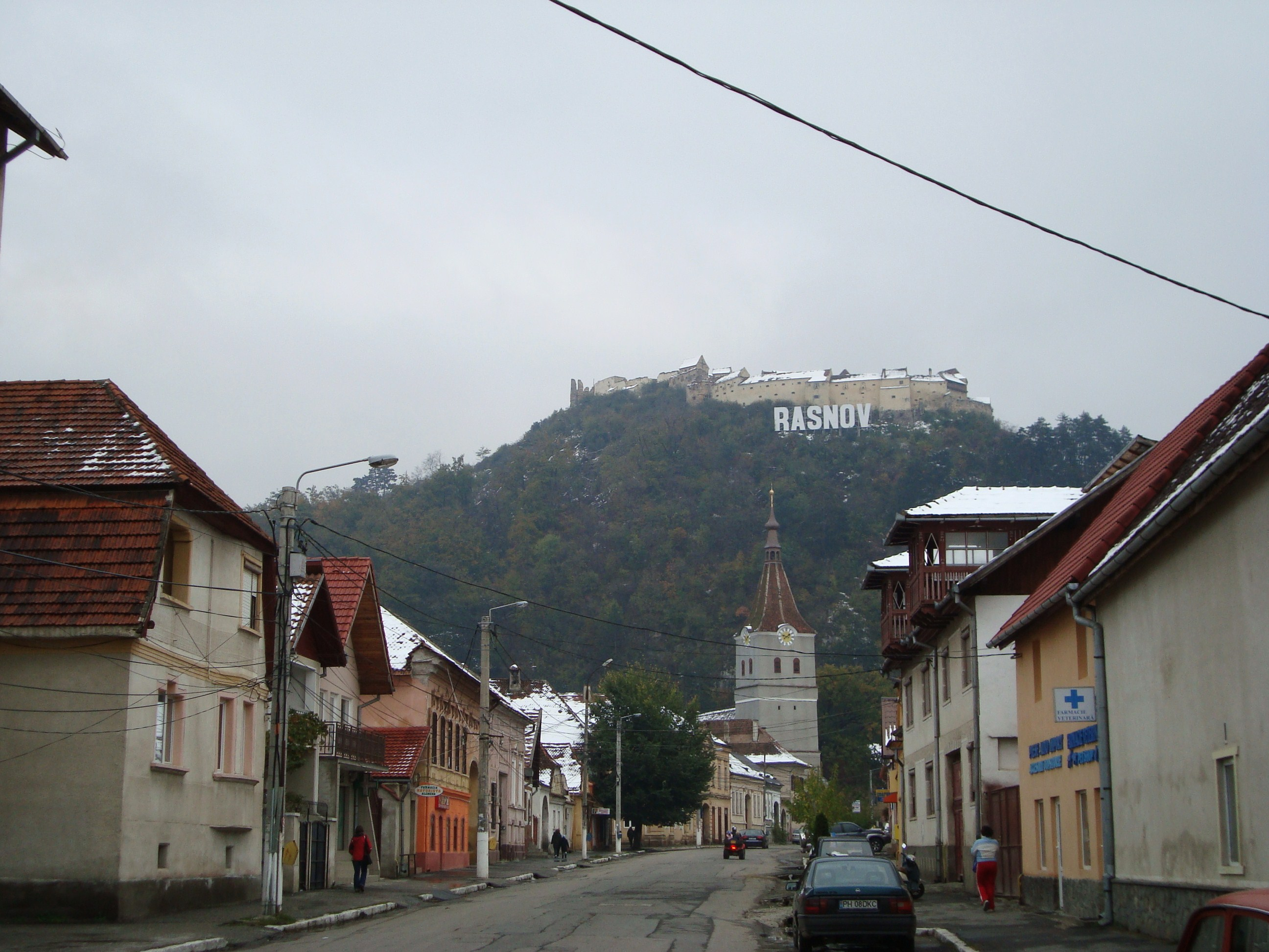 Râşnov, Romania